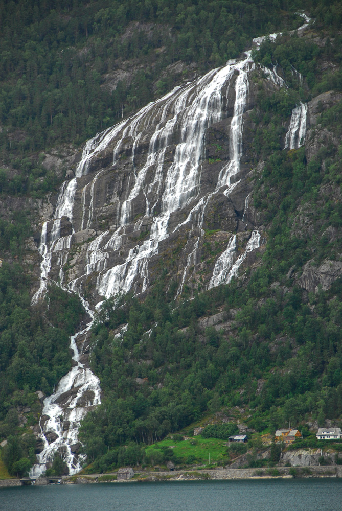 Aednafossen